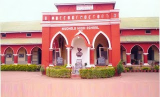 Mudhoji High School in Phaltan, Maharashtra, India.